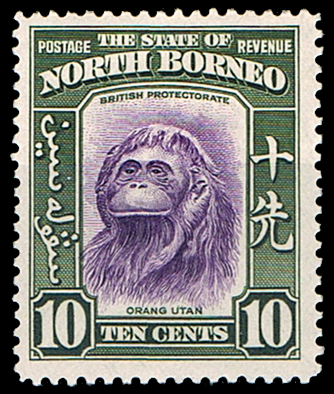 Stamp of North Borneo, orang utan, 1939, 10c.